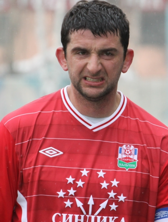 Miodrag Džudović playing for PFC Spartak Nalchik in 2012.